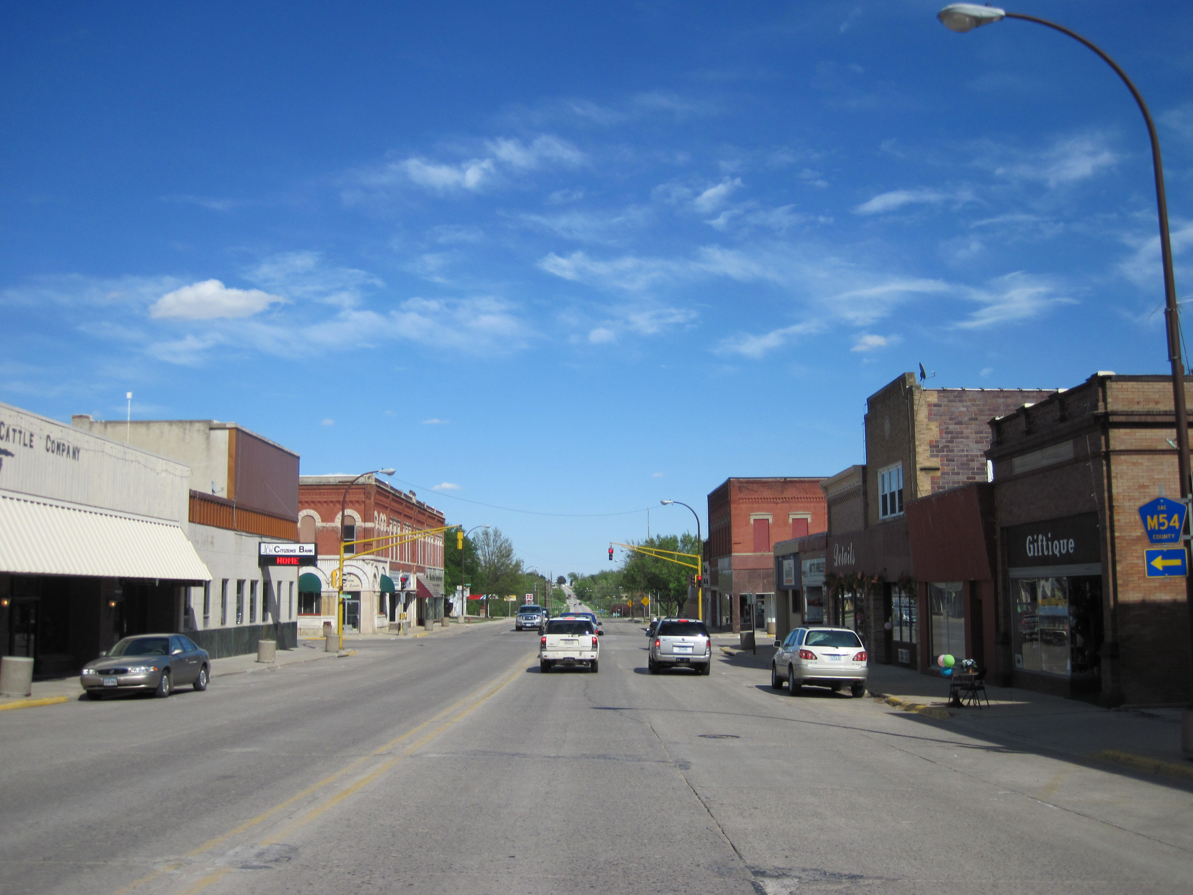 Sac City